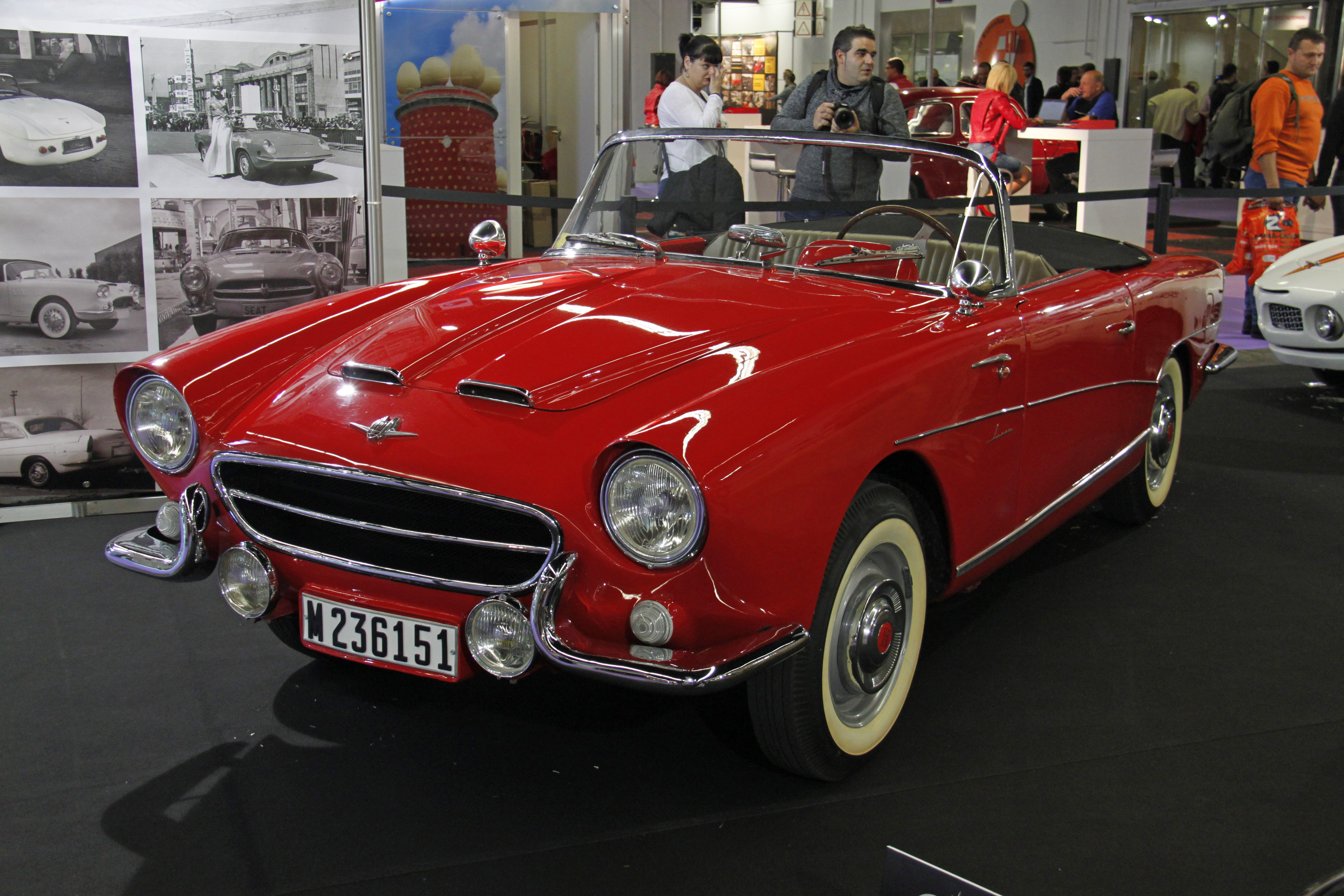 Seat 1400 Sport by Serra at Auto Retro 2017 in Barcelona